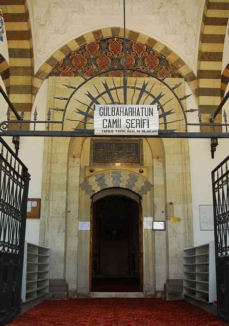 Entrance to Gülbahar Hatun Mosque